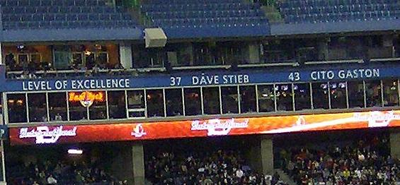 self made